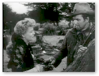 Cropped screenshot of the film Winchester '73